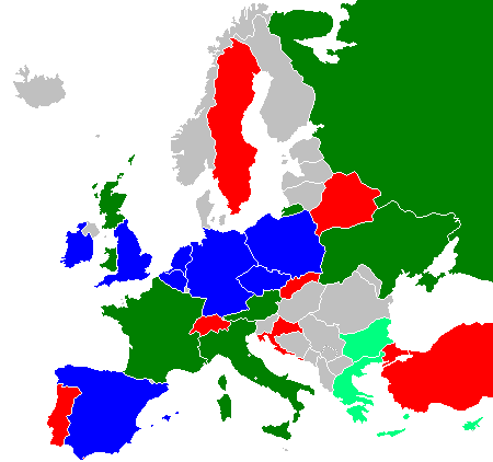 Men's participants of 2013 field hockey European championhips Top division II. division III. division IV. division